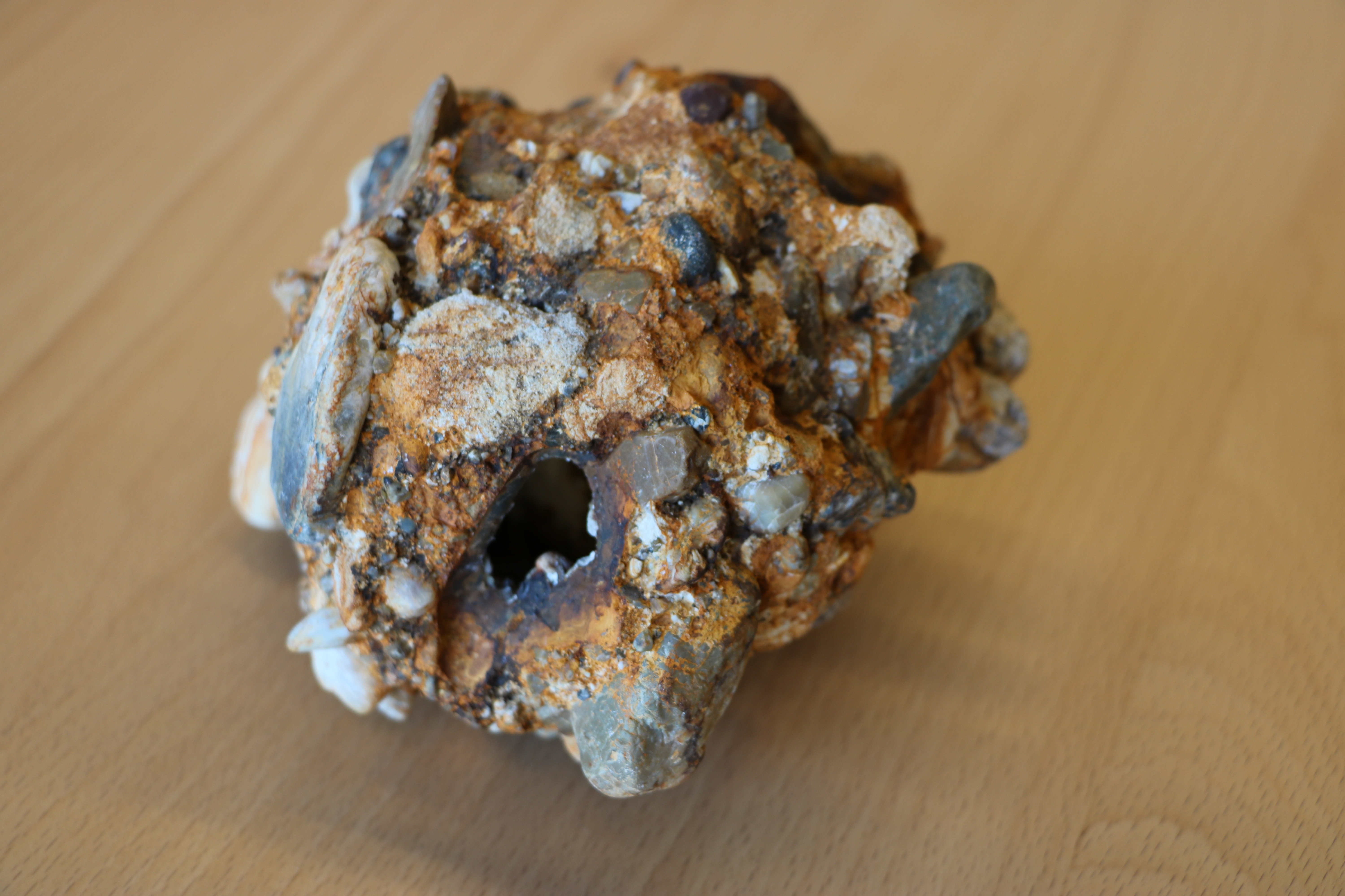 Mino no Tsuboishi. Toki City Hall specimen stone